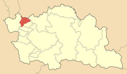 Locator map of Datsikou community (Κοινότητα Δατσικού) at Grevena perfecture, Greece.